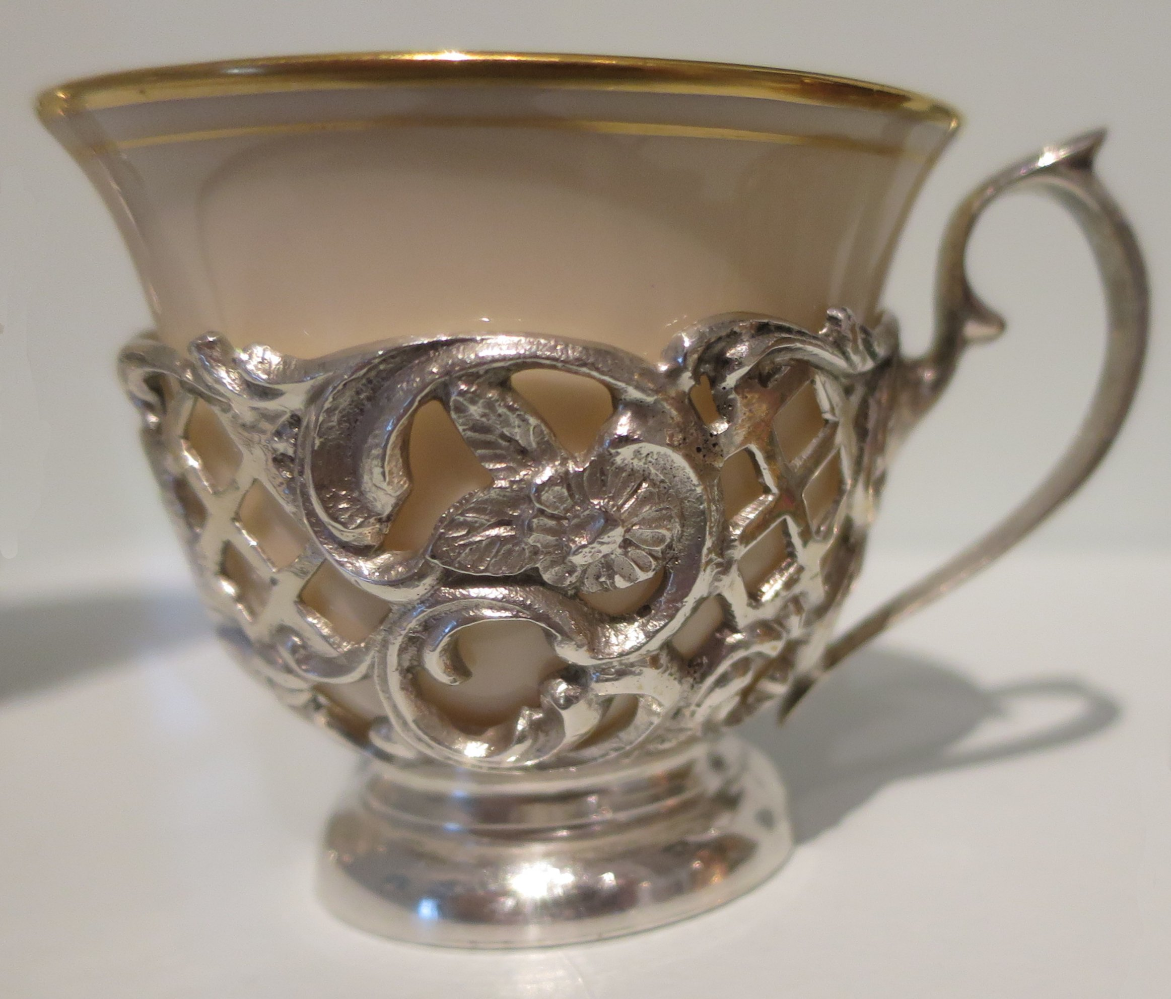 Coffee cup from Turkey, Ottoman period, late 19th-early 20th century, silver, porcelain, gilding, one of three, long-term loan to the Honolulu Museum of Art by Doris Duke Foundation for Islamic Art (accession 57.236.1-3a-b)